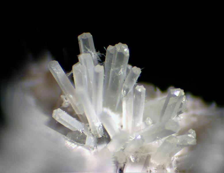 A bunch of Nosean crystals together (image width: 3mm) - Locality: Wannenköpfe, Ochtendung, Eifel region, Germany